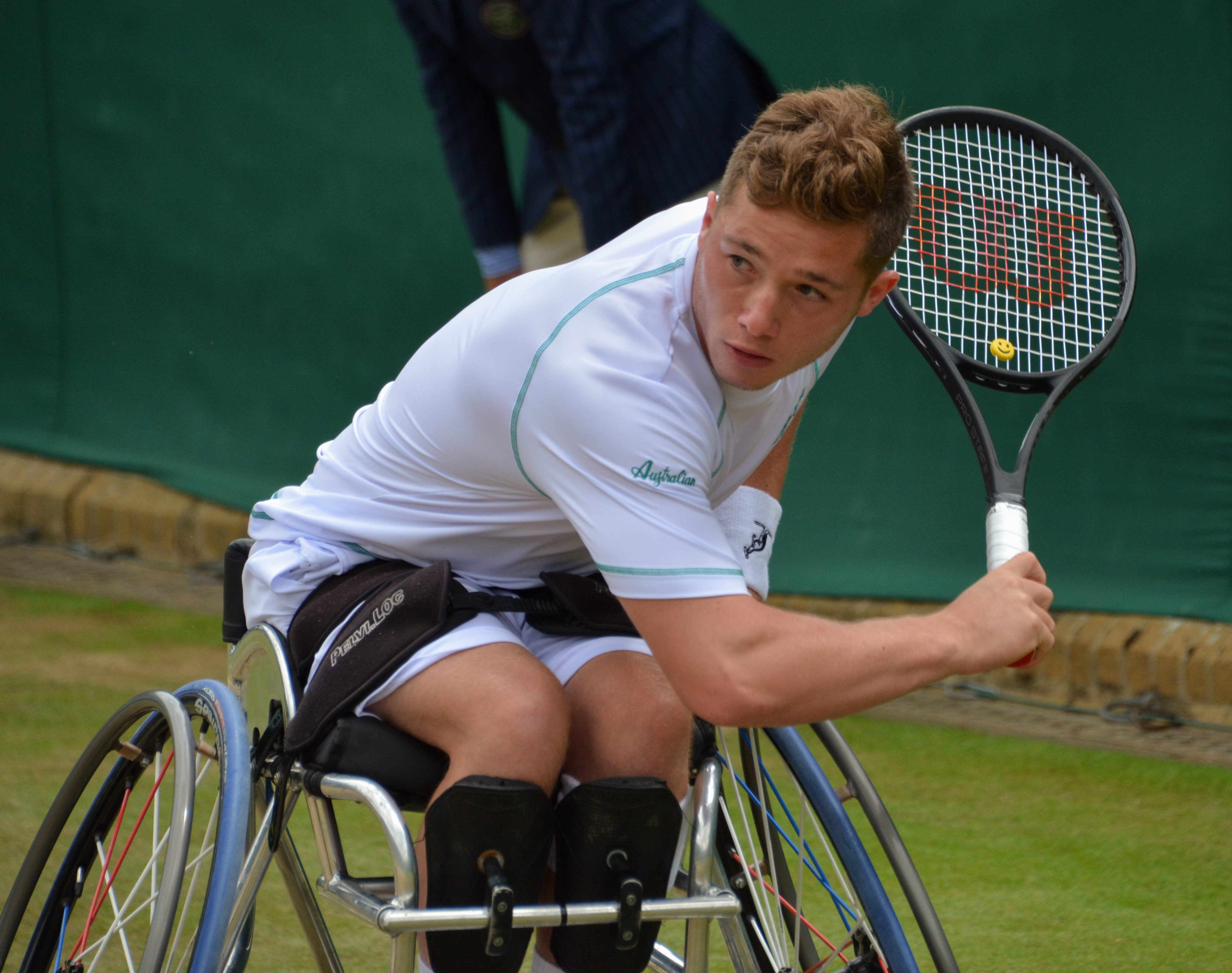 Alfie Hewett playing against Gustavo Fernandez in the wheelchair singles. Day 11 of Wimbledon 2017.